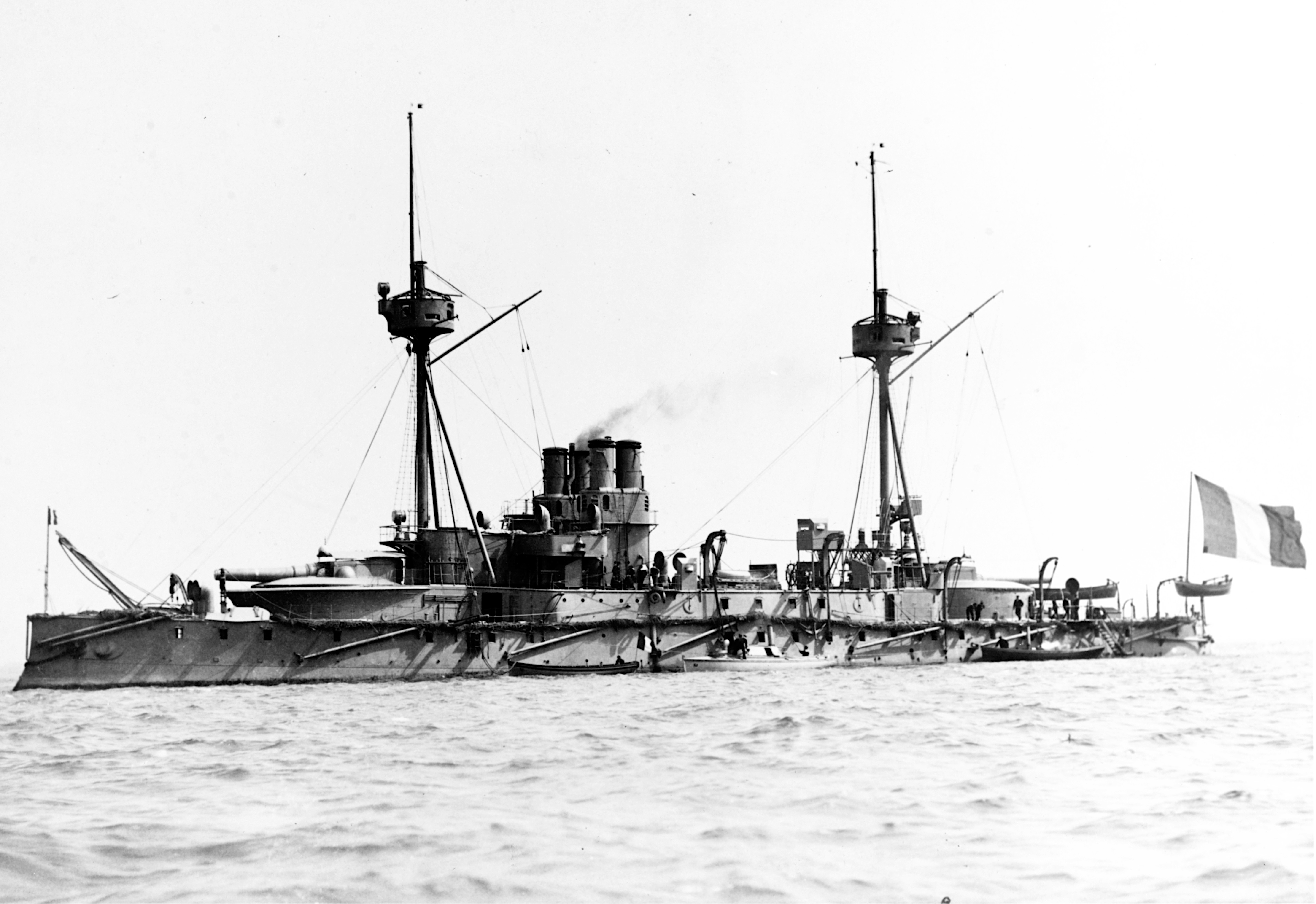 The French ironclad Requin, at anchor off the United Kingdom, 1892.